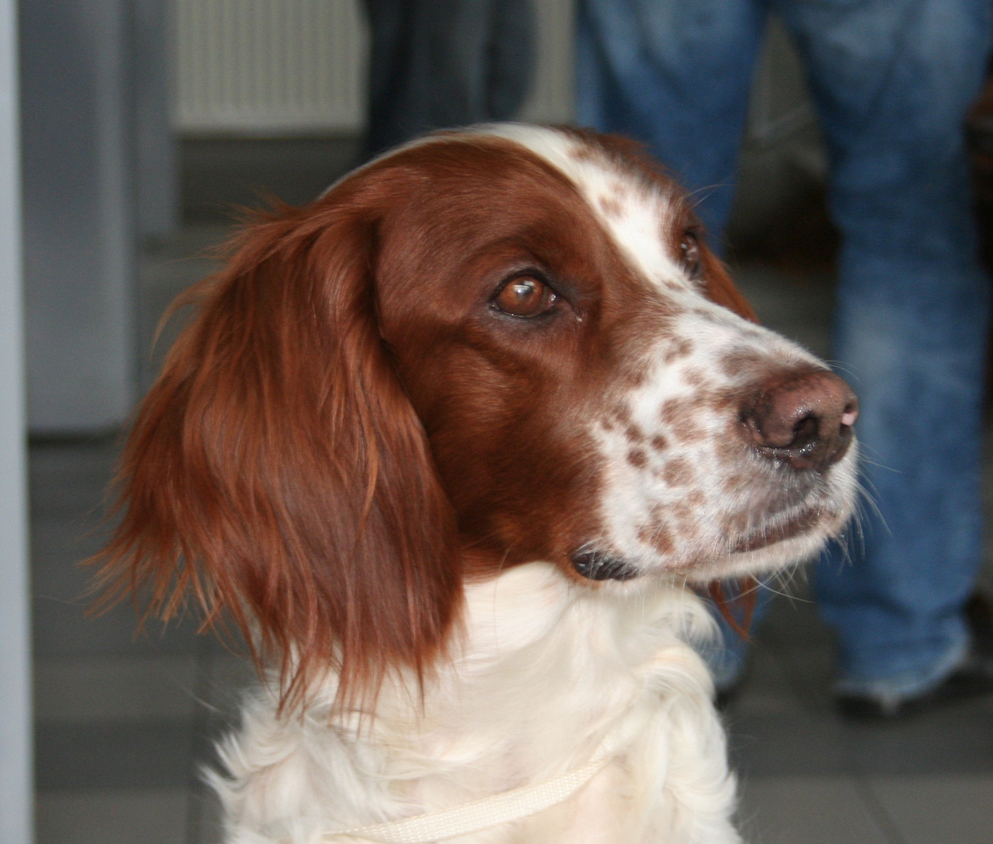 Irish Red and White Setter during International dog show in Rzeszów, Poland.